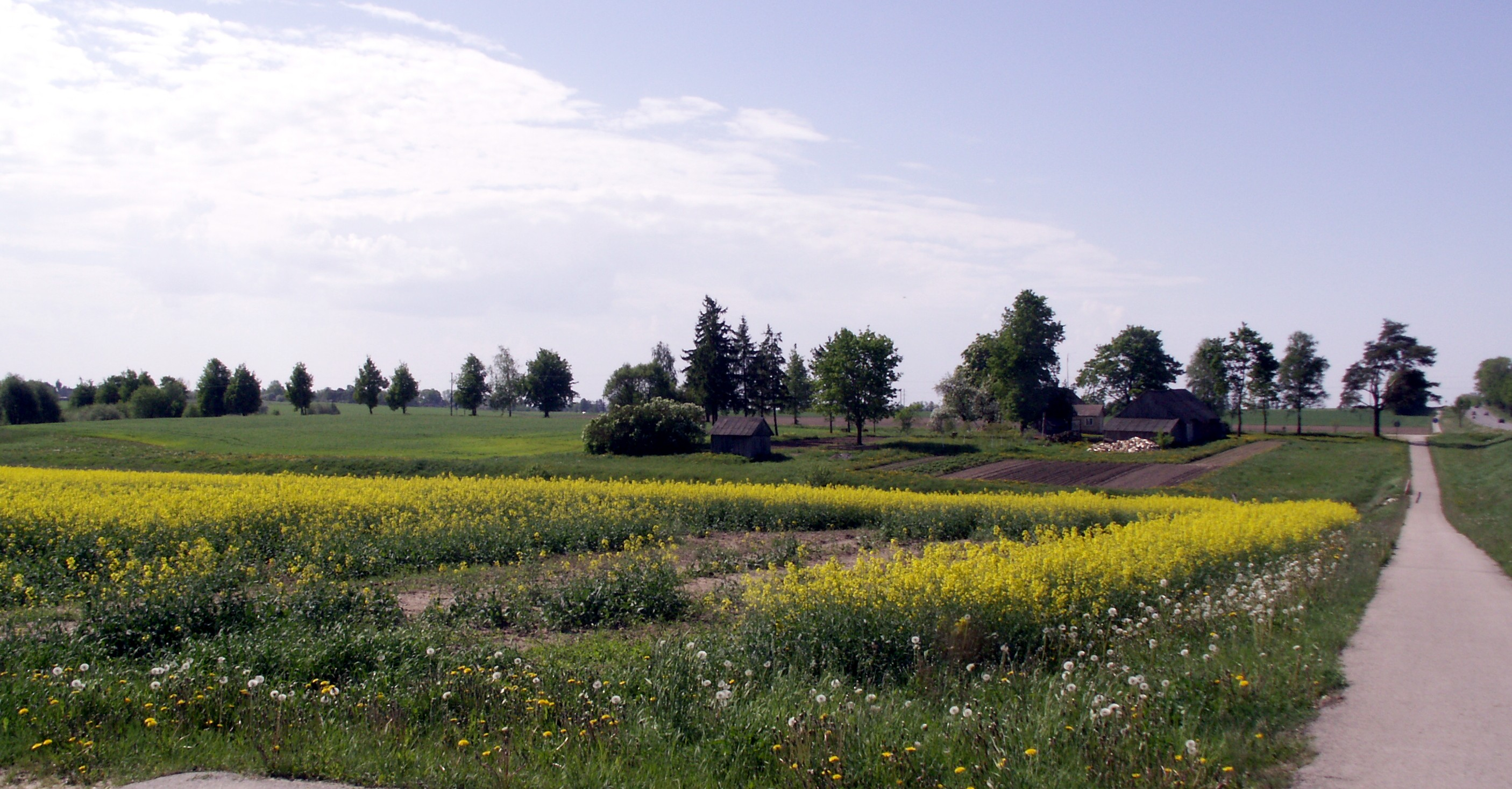 Girelė, Šiauliai district, Lithuania